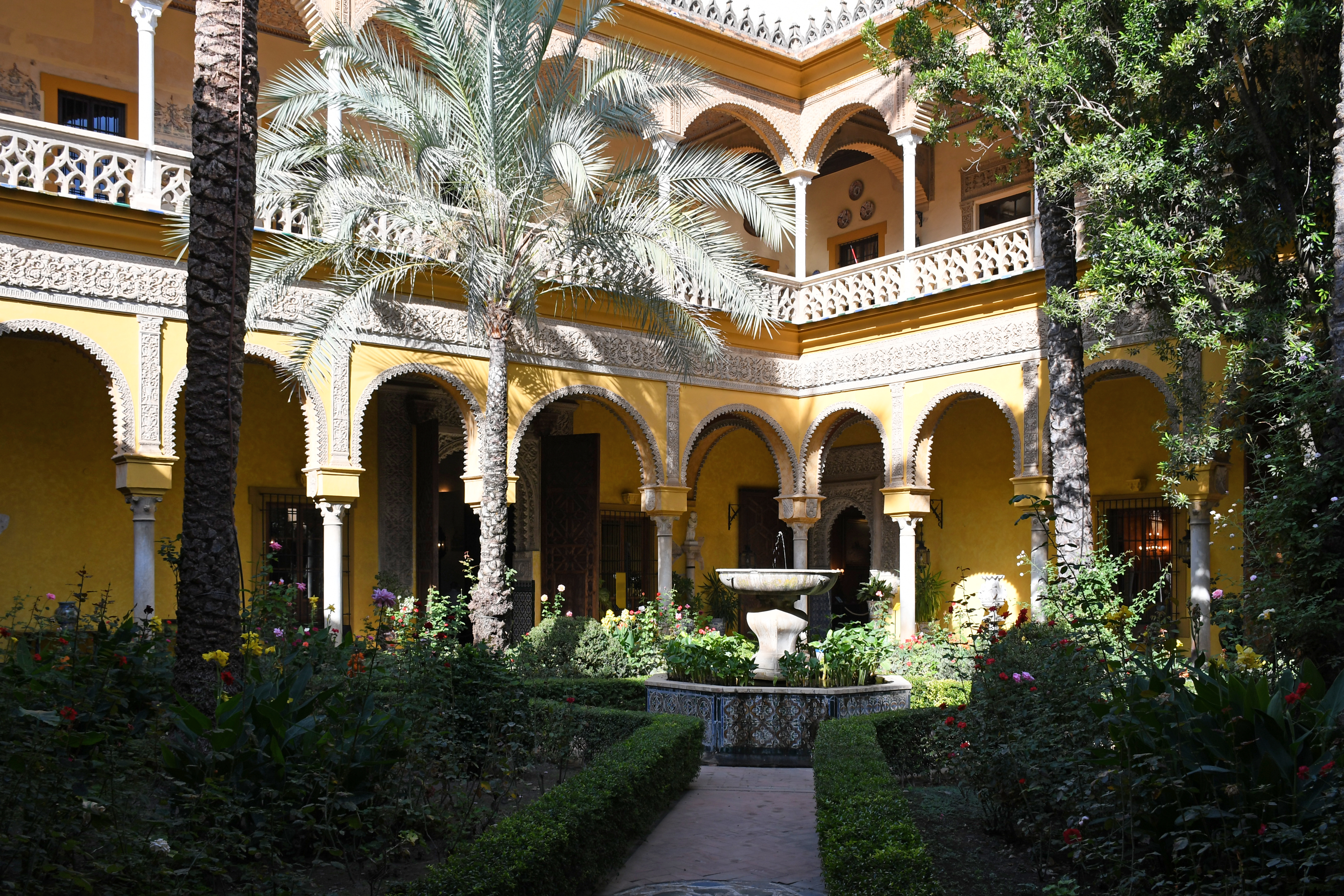 The main patio of the Palacio de las Dueñas (Seville, Spain).